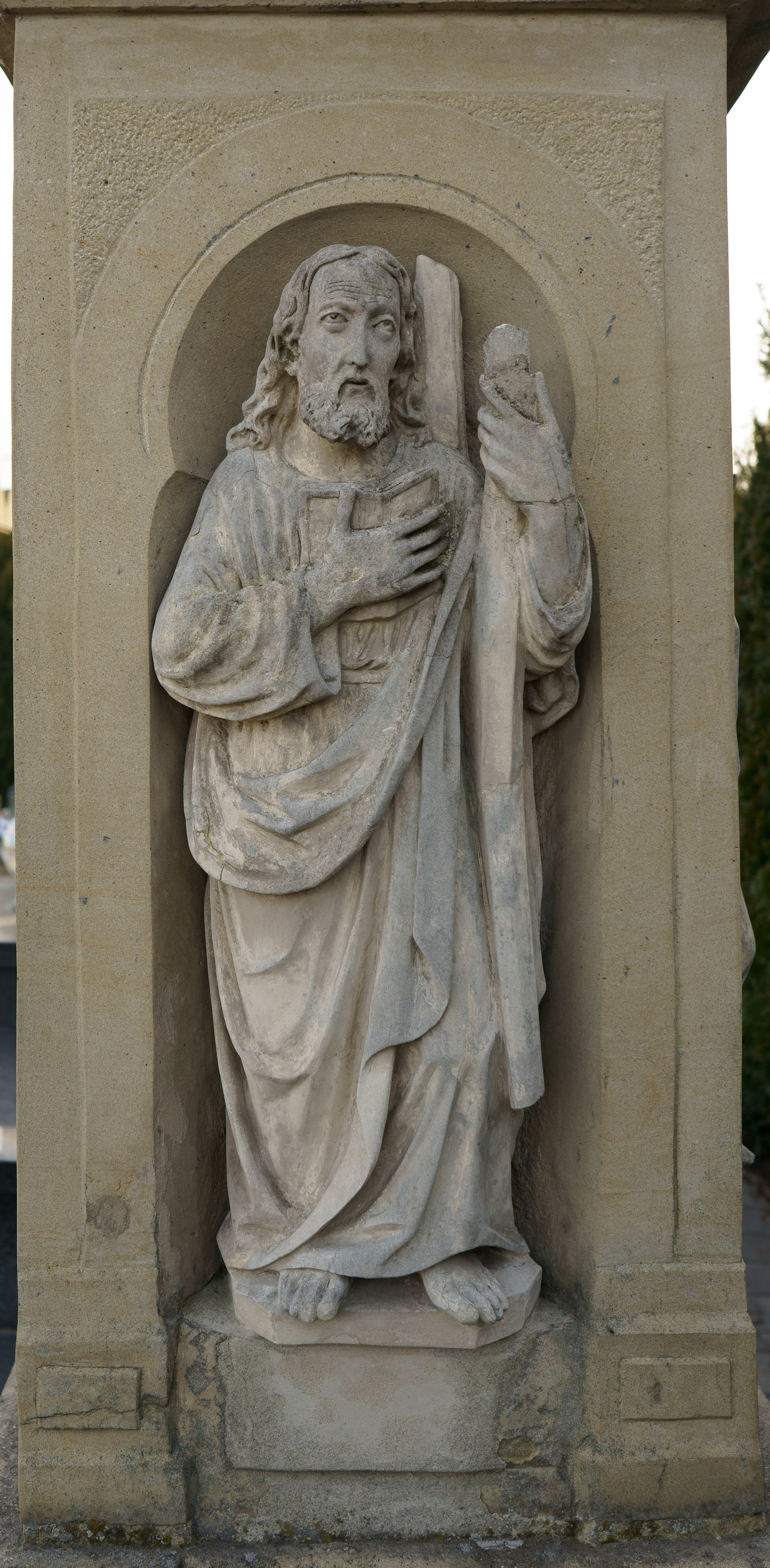 Cemetery in Radziszów.